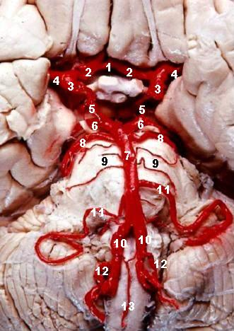 Human brainstem blood supply - Description Arteria communicans anterior A. cerebri anterior A. carotis interna A. cerebri media A. communicans posterior A. cerebri posterior A. basilaris A. cerebellaris superior Ae. pontinae A. vertebralis A. cerebellaris anterior inferior A. cerebellaris posterior inferior A. spinalis anterior The major branches of the Internal Carotid and Vertebral-Basilar Artery Systems are shown. BRAINSTEM (Anterior View) (font: arial black, size: 12)